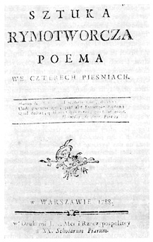 First page of "Sztuka rymotwórcza" by Franciszek Ksawery Dmochowski (1762-1808)